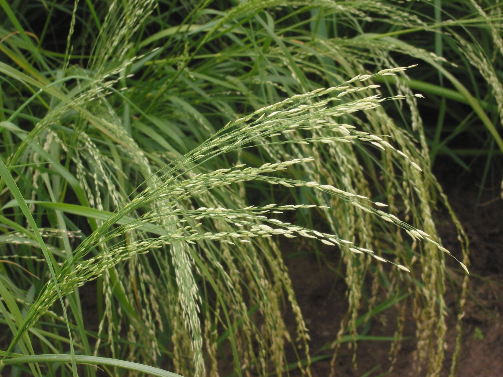 Picture taken by myself: (nl: Teff pluim) Eragrostis tef; ((GFDL)) Eragrostis tef